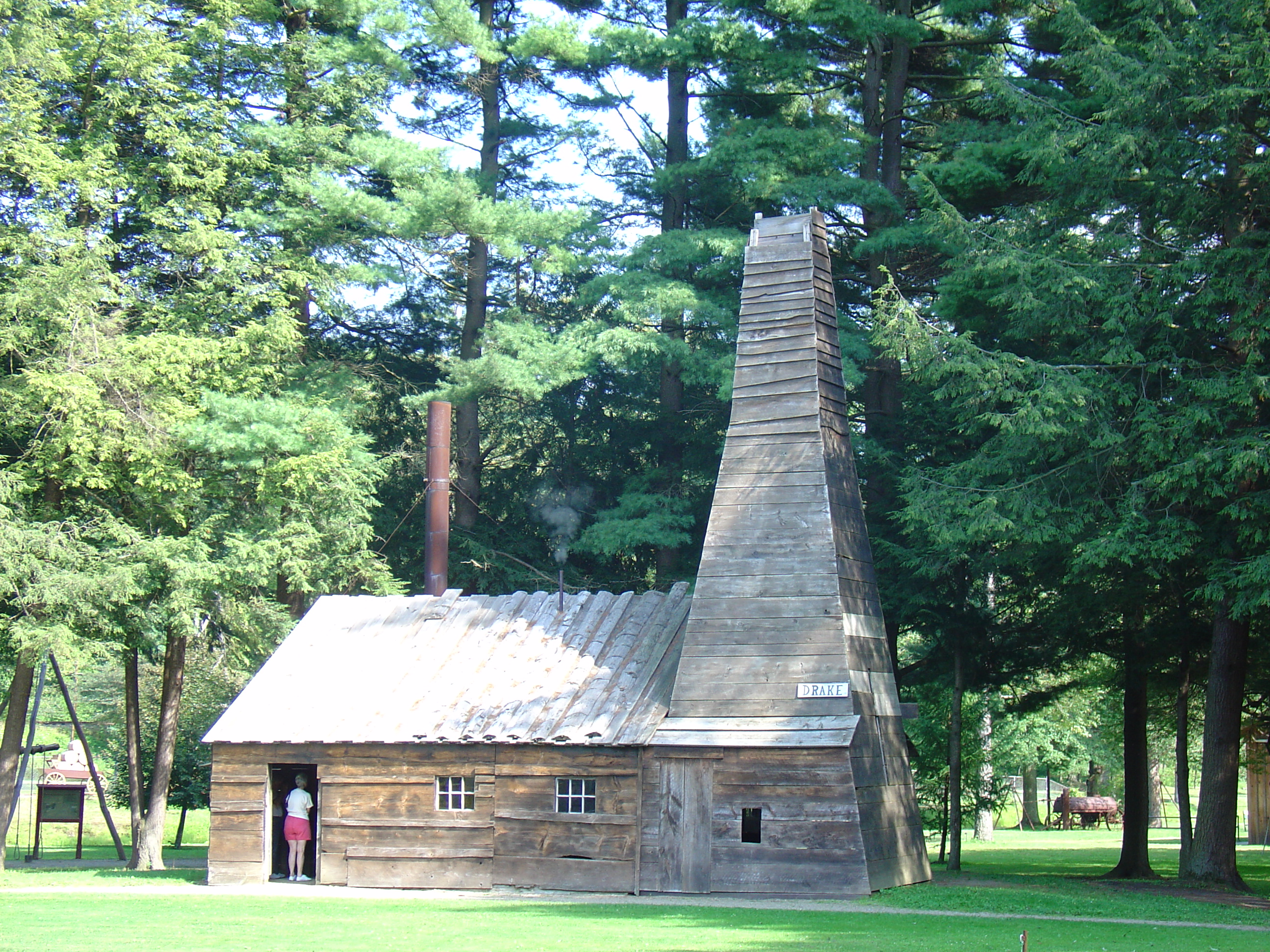 At the Drake Well Museum in August 2006 in Titusville, Pennsylvania. Object location41° 36′ 38″ N, 79° 39′ 28″ W